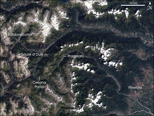 Landsat 7 image of the Italian Alps near Turin (Torino) with some of the venues from the 2006 Winter Olympics marked.